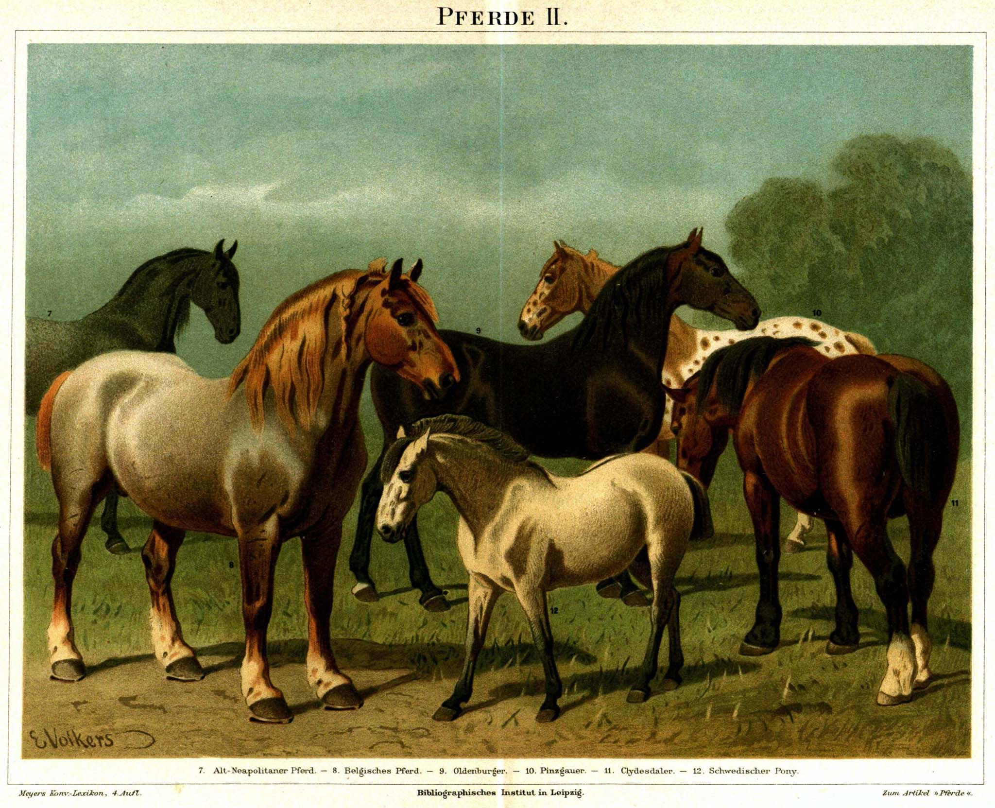 Different horse races.